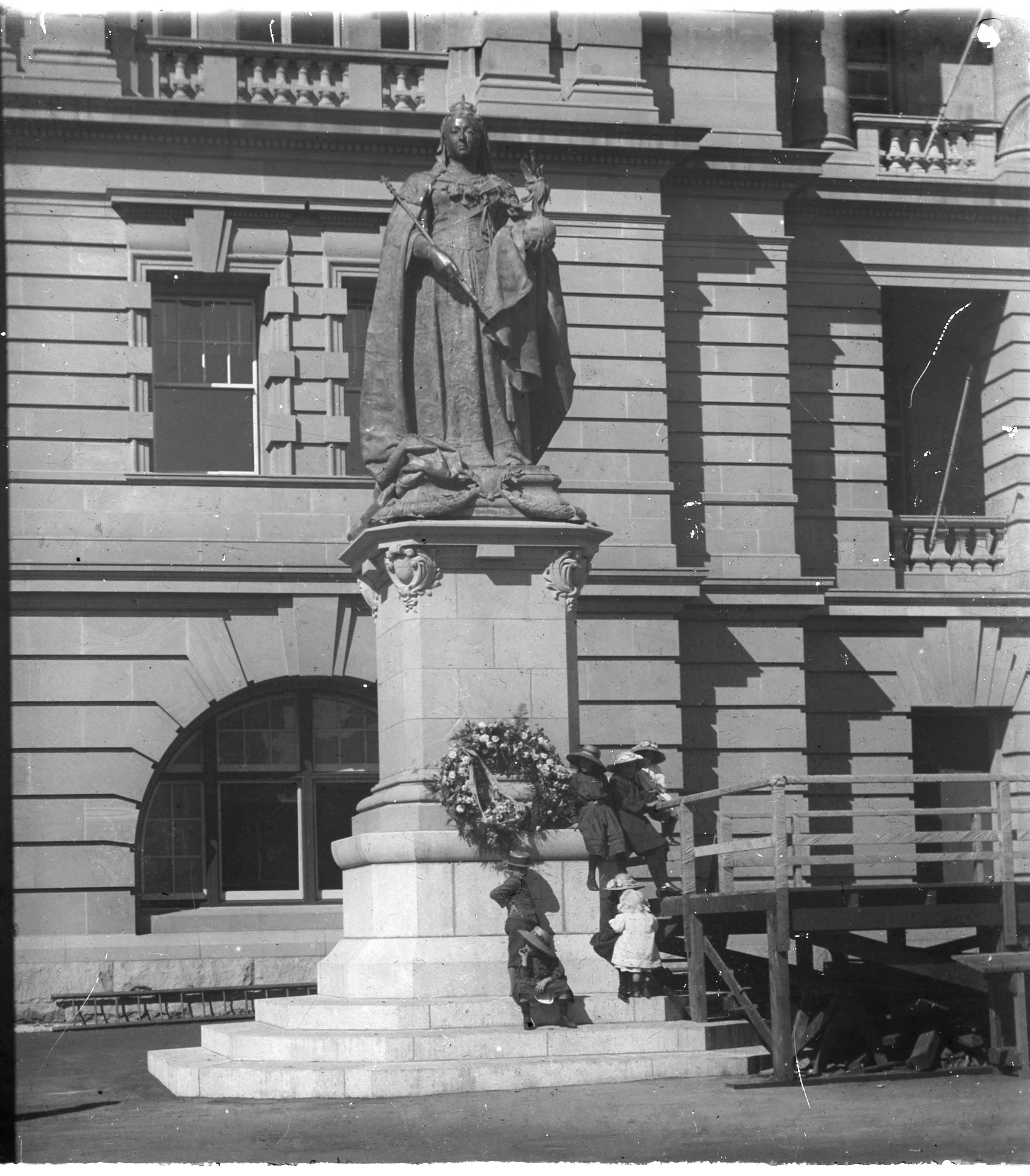 Statue of Queen Victoria in Queens Gardens, Brisbane (flipped left-to-right as the original scan was back-to-front, possibly scanned from the wrong side of the negative)